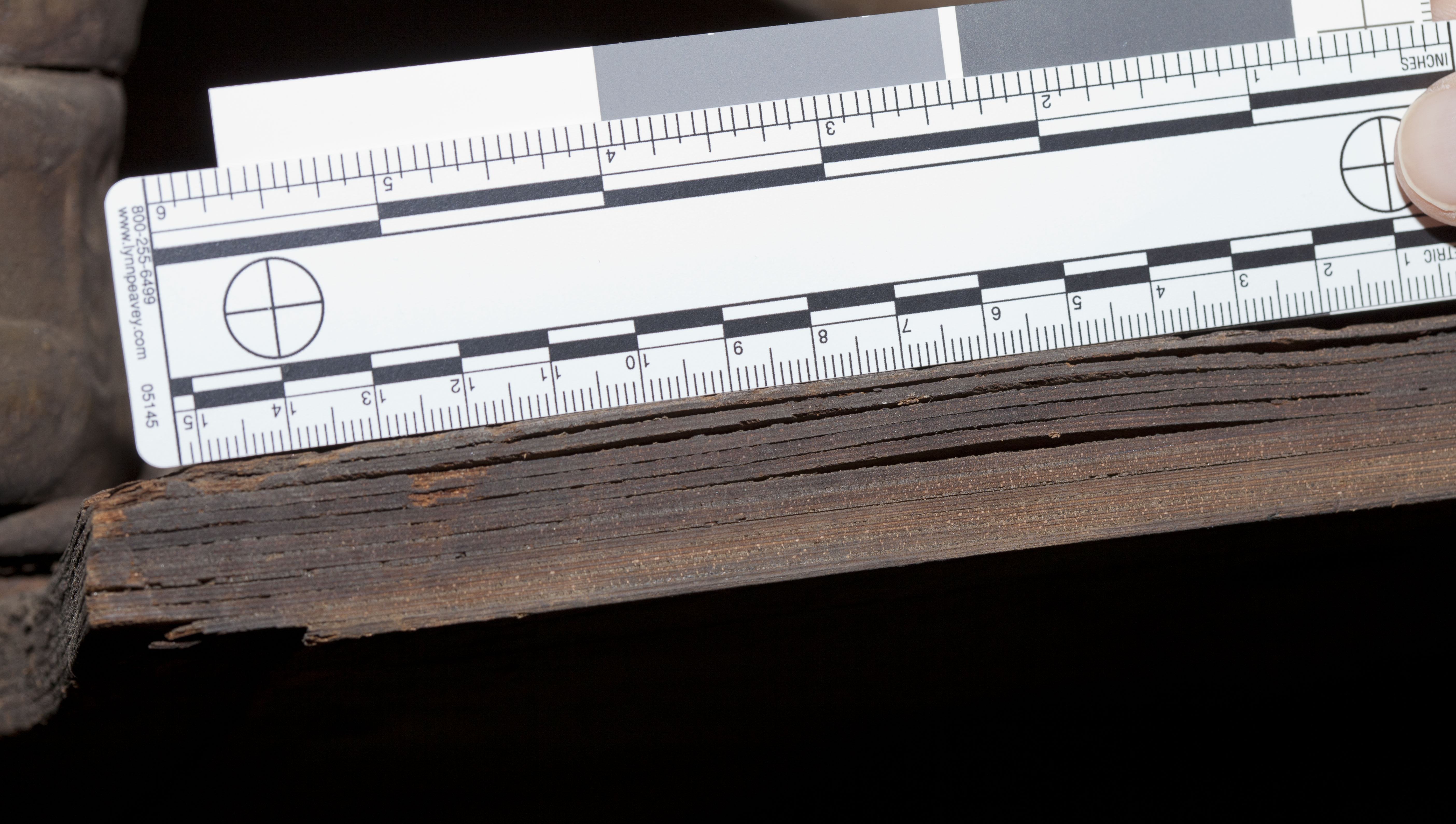 This is the composite/laminate cross-section, of the layers of wood, unified with a glue containing a mixture of sawdust and charcoal. The sawdust was used to add fibers and strength to the glue, given it's increased thickness required to the contain charcoal dust.